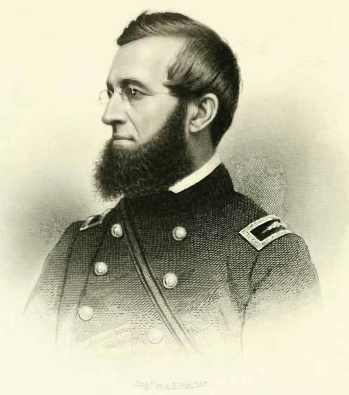 Colonel Lewis Benedict (b. 2 Sept. 1817 - d. 9 April 1864), of the 162nd New York Volunteer Infantry. Note: This image was scanned and cropped from an engraving facing the title page of the following book: Benedict, Henry Marvin. A memorial of Brevet Brigadier General Lewis Benedict, Colonel of 162d Regiment N. Y. V. I., who fell in battle at Pleasant Hill, La., April 9, 1864. Albany, N.Y.: J. Munsell, 82 State Street, 1866. The author, Henry M. Benedict, died 1875. Page 147 of this book states (which helps explain the book's title) that: "ACTION BY THE PRESIDENT AND SENATE. The President, on the recommendation of the Secretary at War, nominated, for Brevet Brigadier General, U. S. Volunteers: "Colonel Lewis Benedict of the One Hundred and Sixty Second New York Volunteers, for gallant conduct at Port Hudson, Louisiana, to date from March 13, 1865." This nomination was confirmed by the Senate, July 23, 1866.